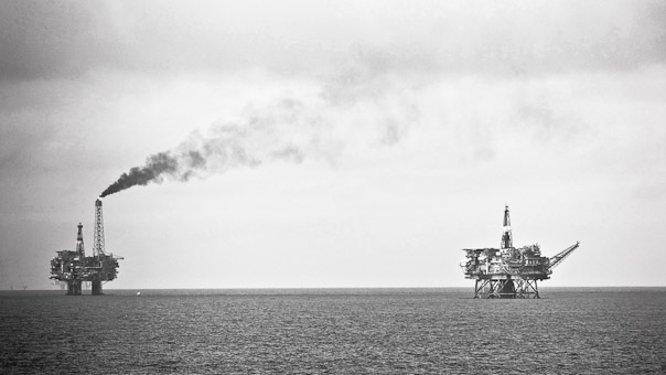 Oil platforms in the North Atlantic between Norway and Shetland, as seen from the ferry Norröna. Left: Brent B (Brent Bravo), Right: Brent A (Brent Alpha).